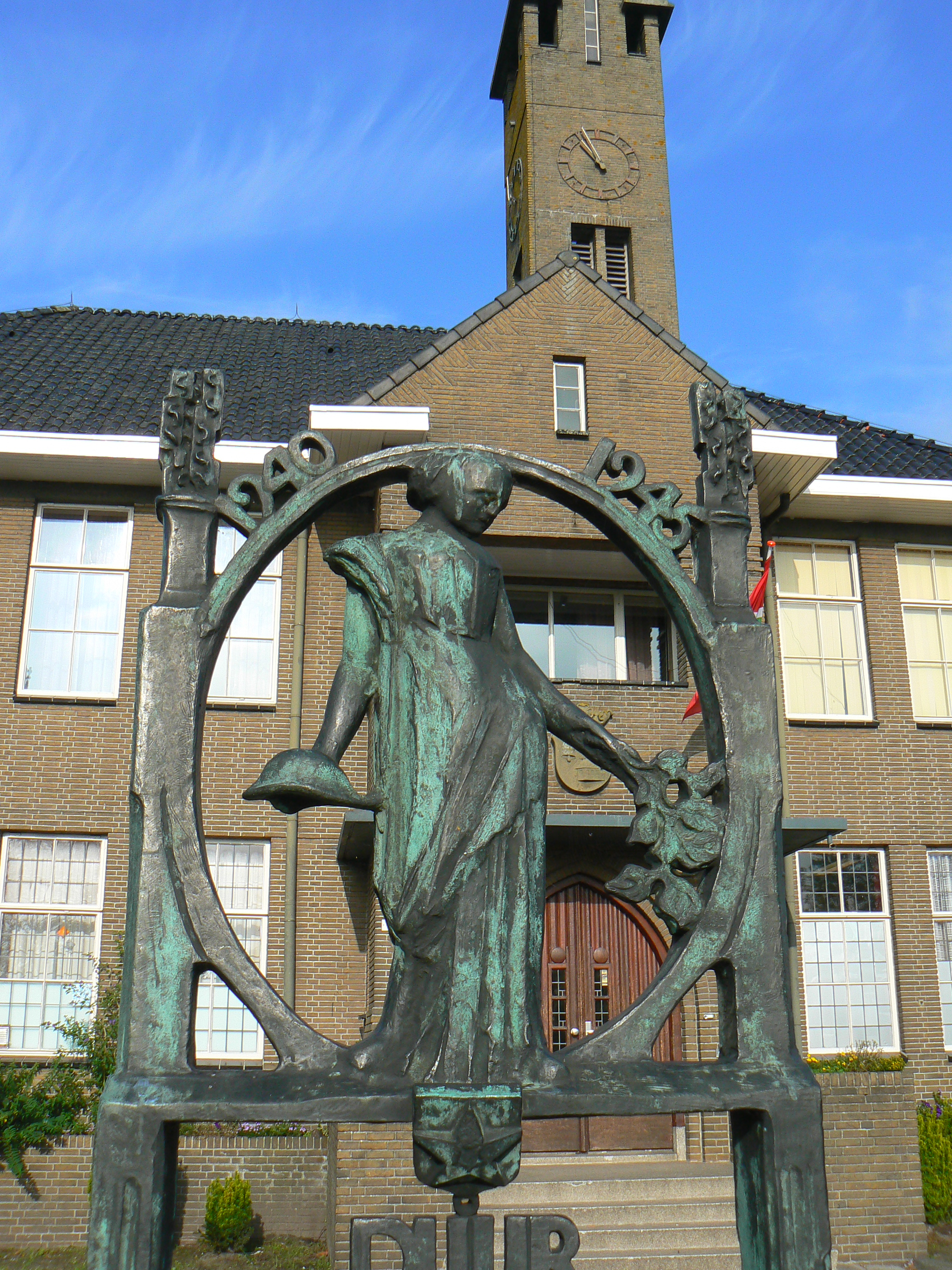 Memorial Oorlogsmonument Nieuwe Pekela - detail (1949) by F.H. Hoevenagel, Dr. Sicco Tjadenstraat C53 in Nieuwe Pekela/The Netherlands